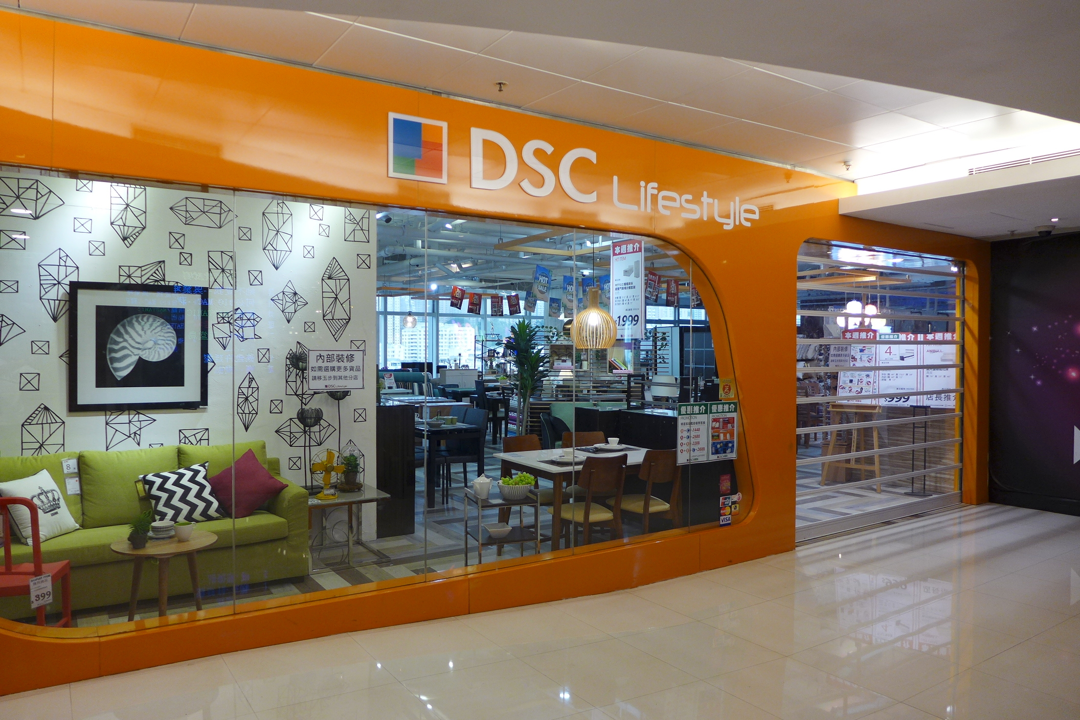 DSC lifestyle closed